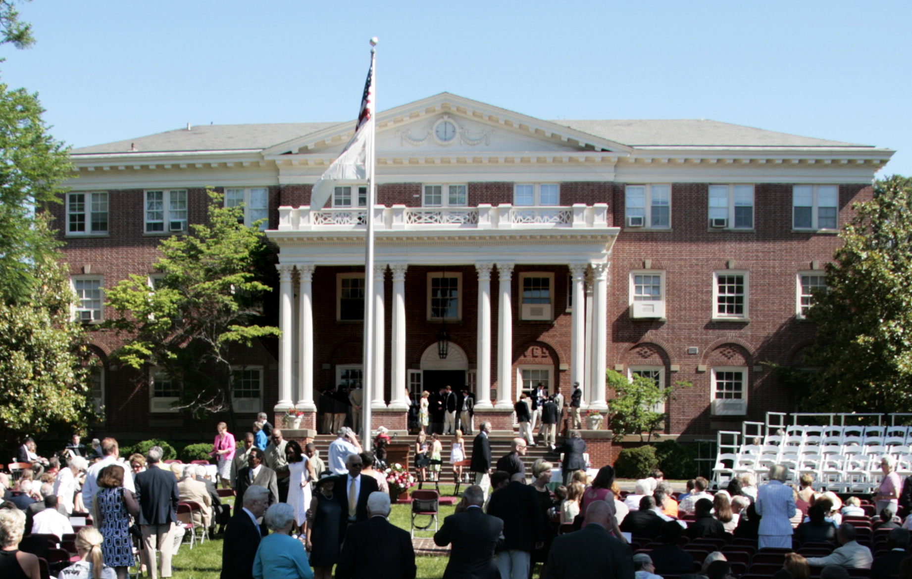 Graduation Exercises underway at VES